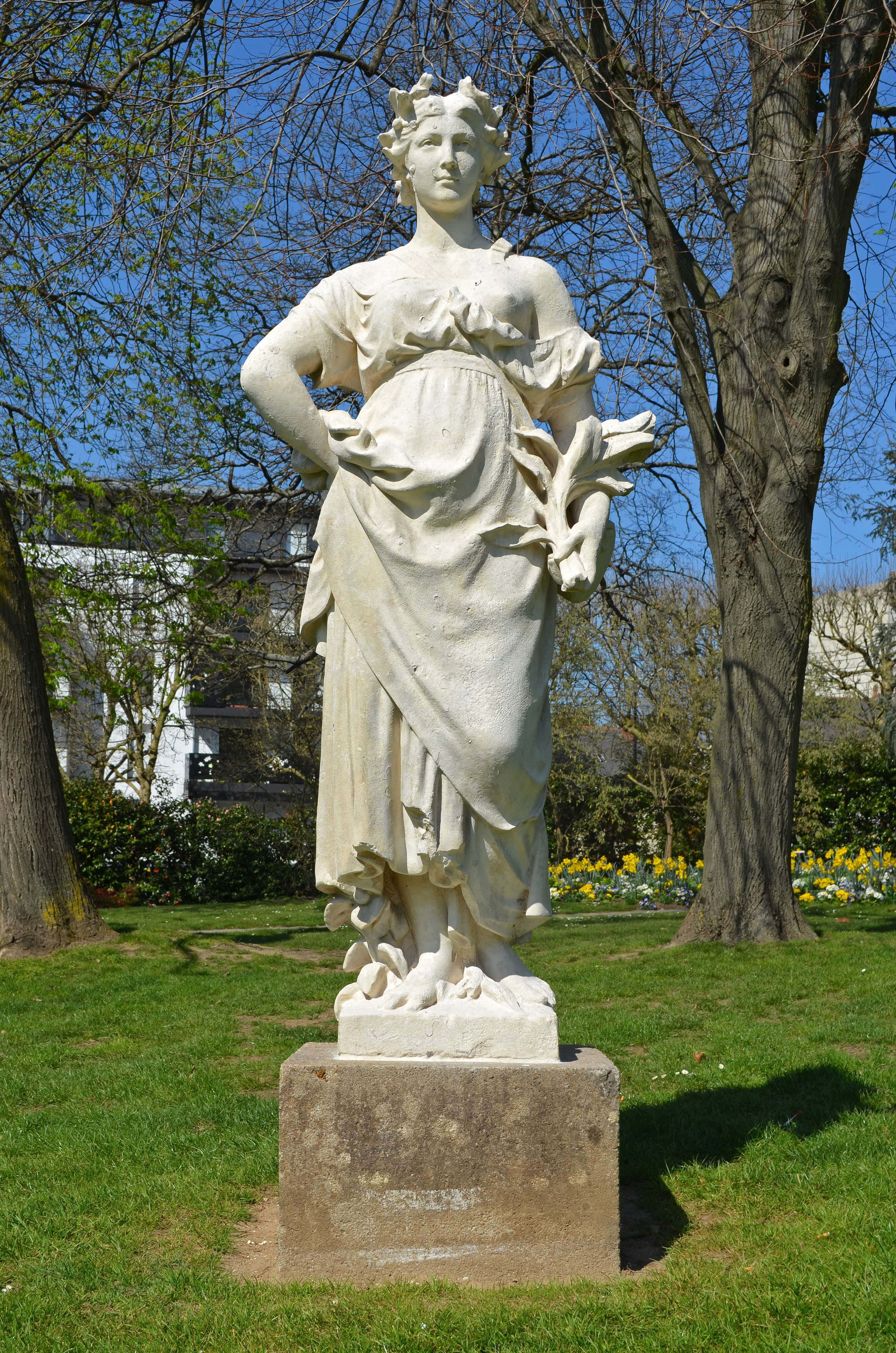 Allegorical sculpture called Botany by Jean-Baptiste Baujault (1828 - 1899) in Procé park - Nantes